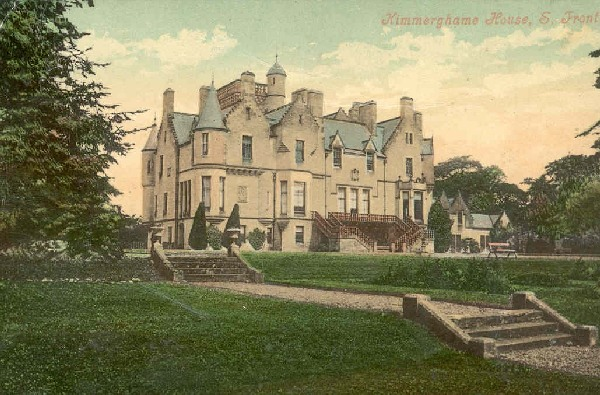 Kimmerghame House, Duns, Berwickshire before the fire of 1938